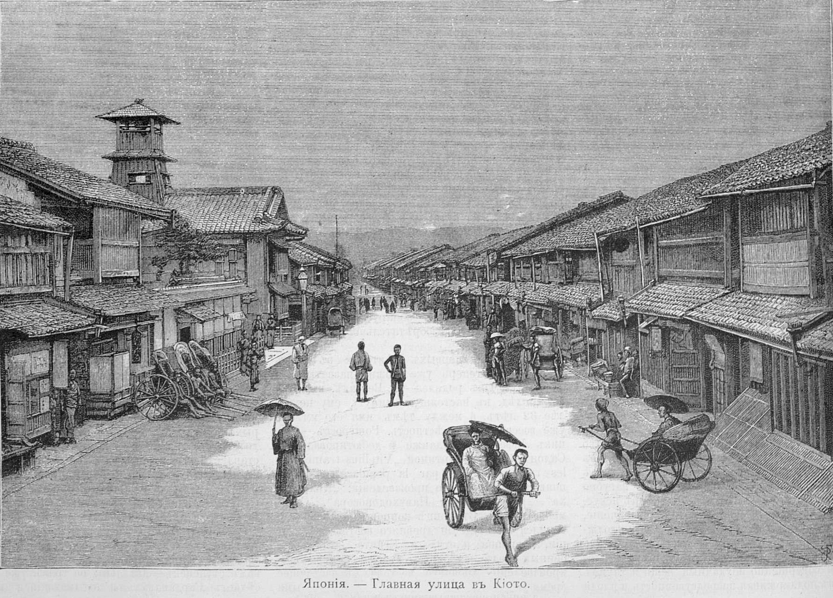 The main street of Kyoto, 1891